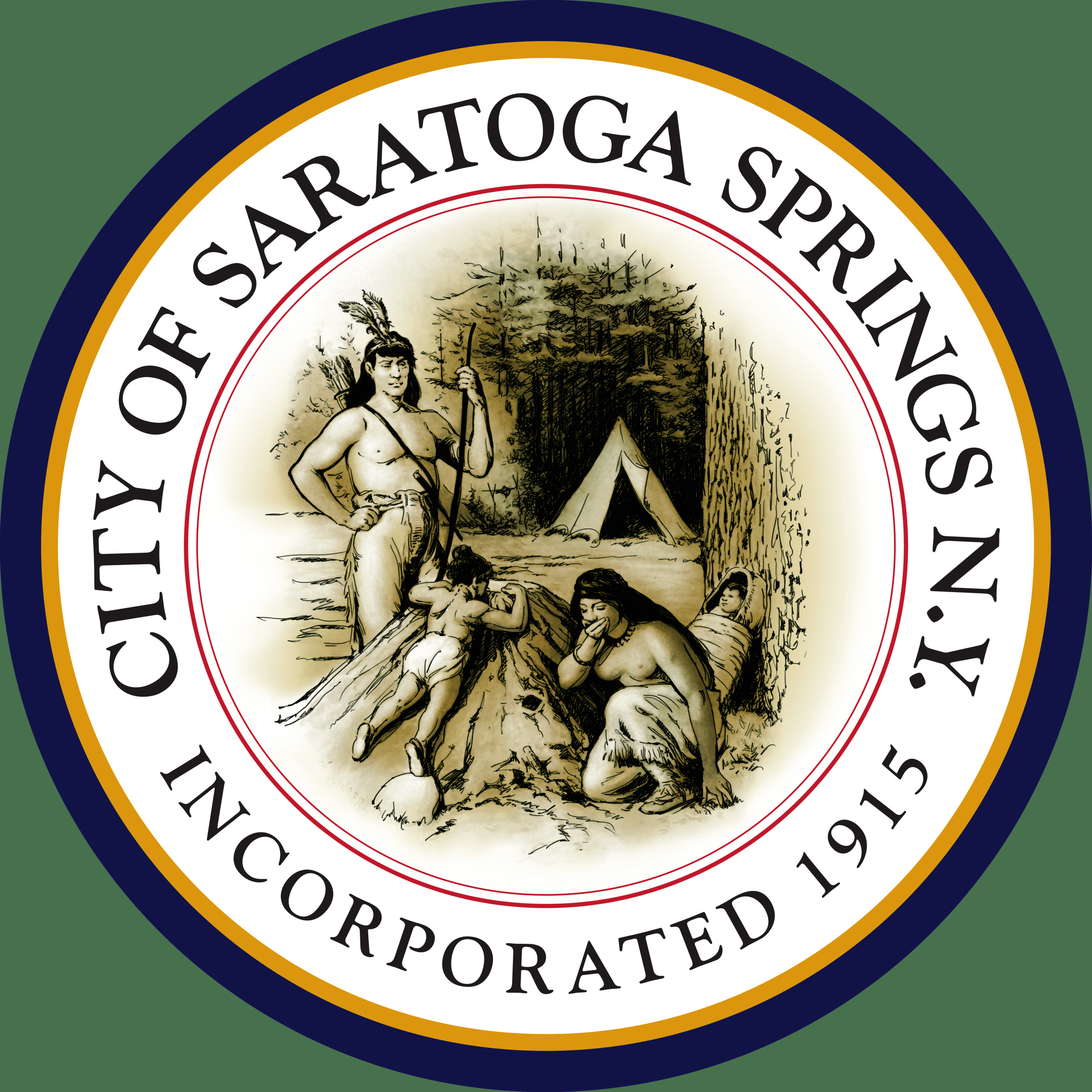 The seal of the City of Saratoga Springs as depicted at Waterfront Park